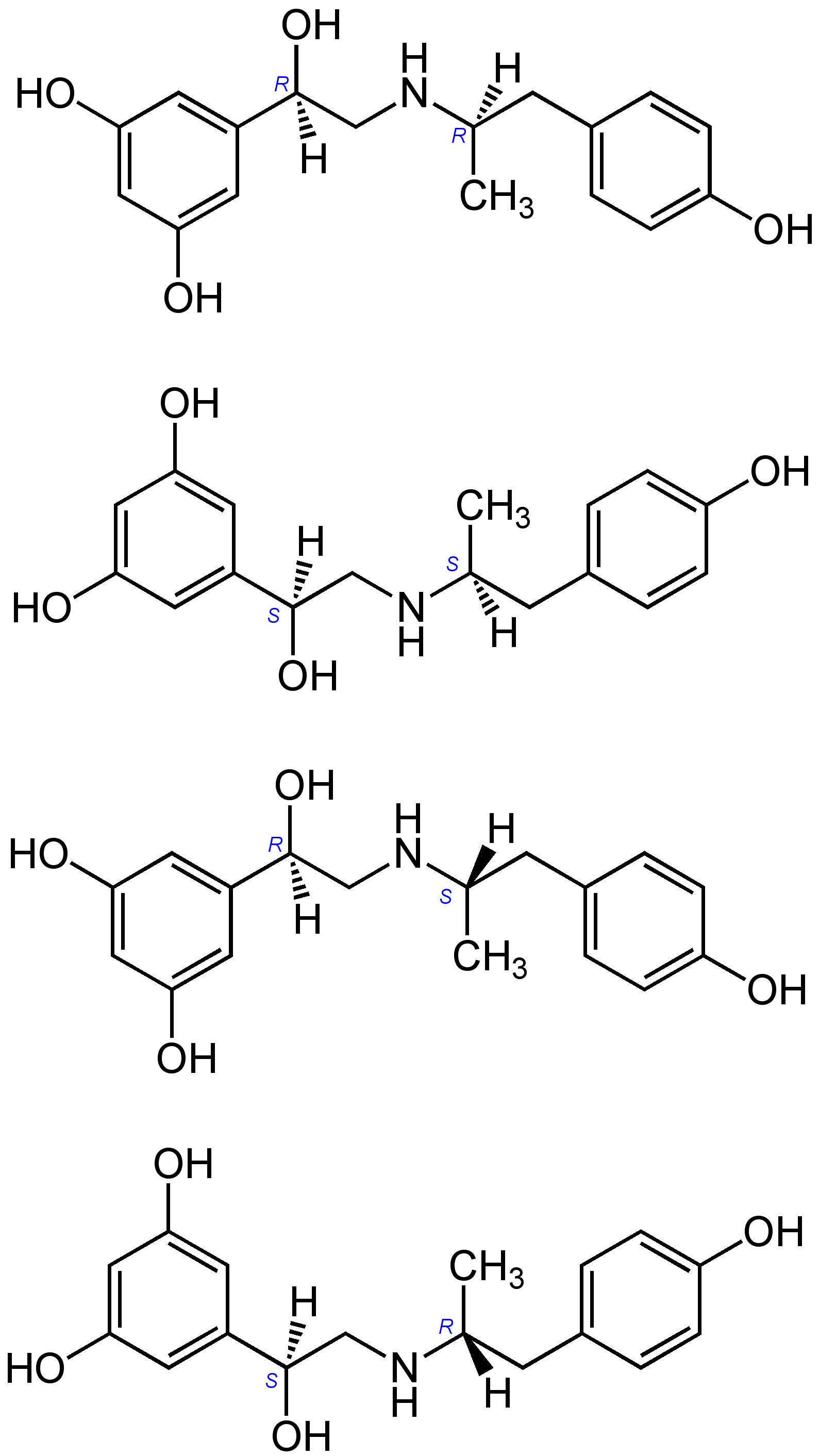 Fenoterol_4_possible_Stereoisomers_Structural_Formulae